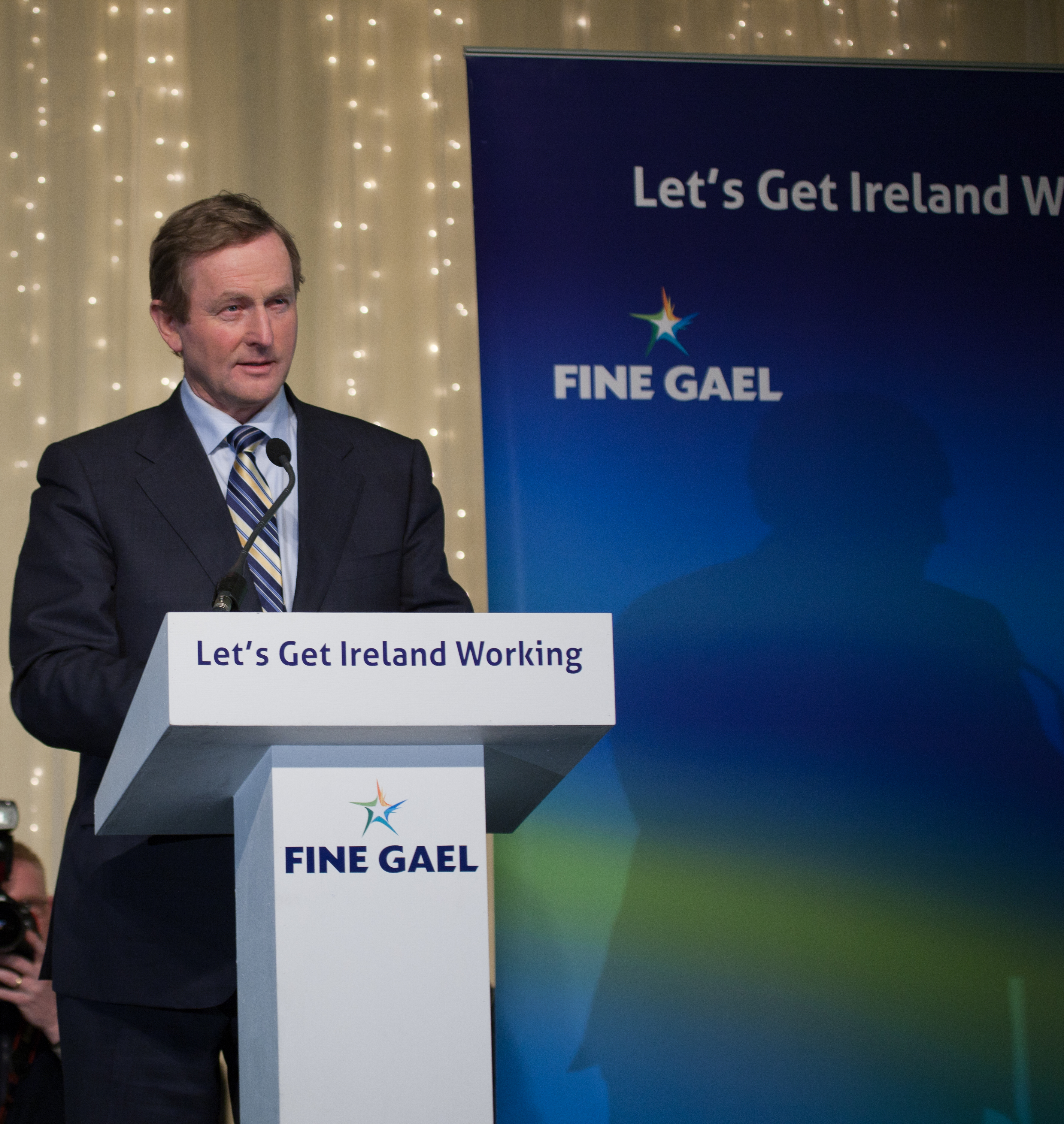 Enda Kenny making a speech in the Burlington Hotel in Dublin on the day of the count of the 2011 General Election, when Fine Gael topped the poll assuring that they will lead the incoming government. Kenny became Taoiseach on the 9 March 2011.